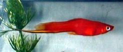 swordtail, or Xiphoporus helleri I took this picture on August 28, 2003 and release it into the public domain. RayKiddy 01:16, 31 Aug 2003 (UTC) Someone aked if they could use this in one of the non-English wikipedias. Please, feel free. Use it. RayKiddy 06:44, 23 Mar 2004 (UTC)